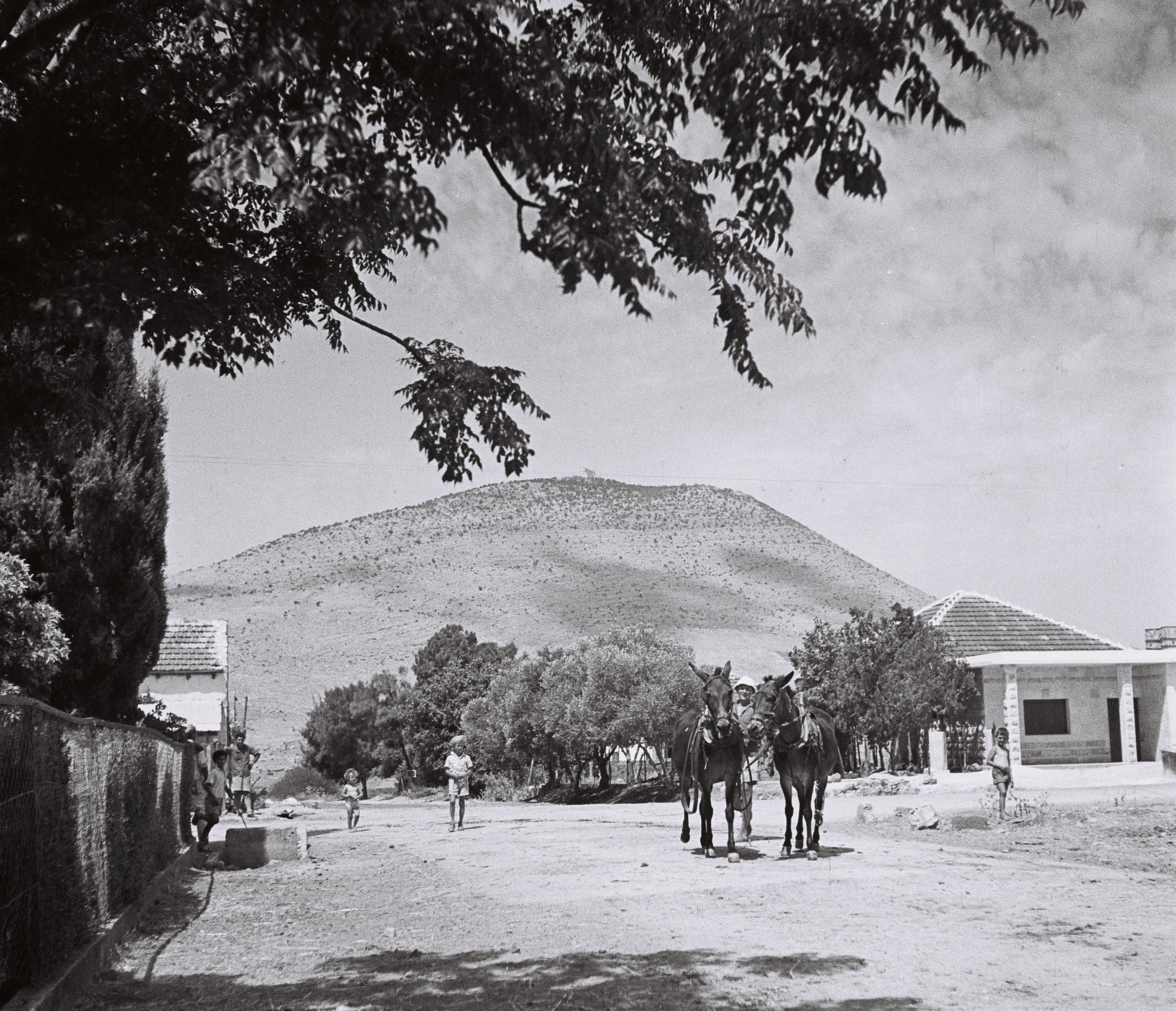 VIEW OF KFAR TABOR AT THE FOOT OF MOUNT TABOR. כפר תבור למרגלות הר תבור.